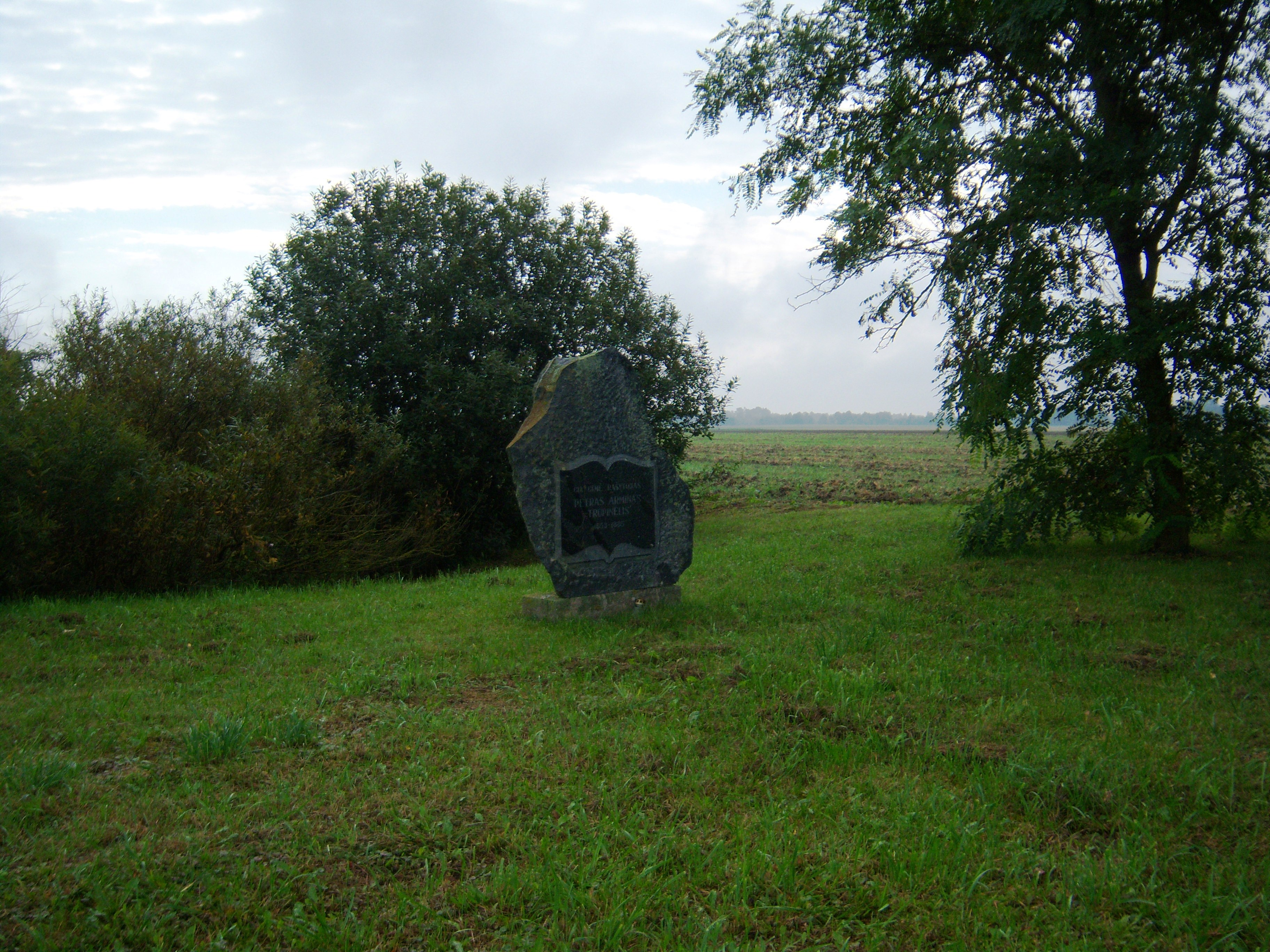 Memorial stone to Petras Arminas-Trupinėlis, Vilkaviškis District, Lithuania